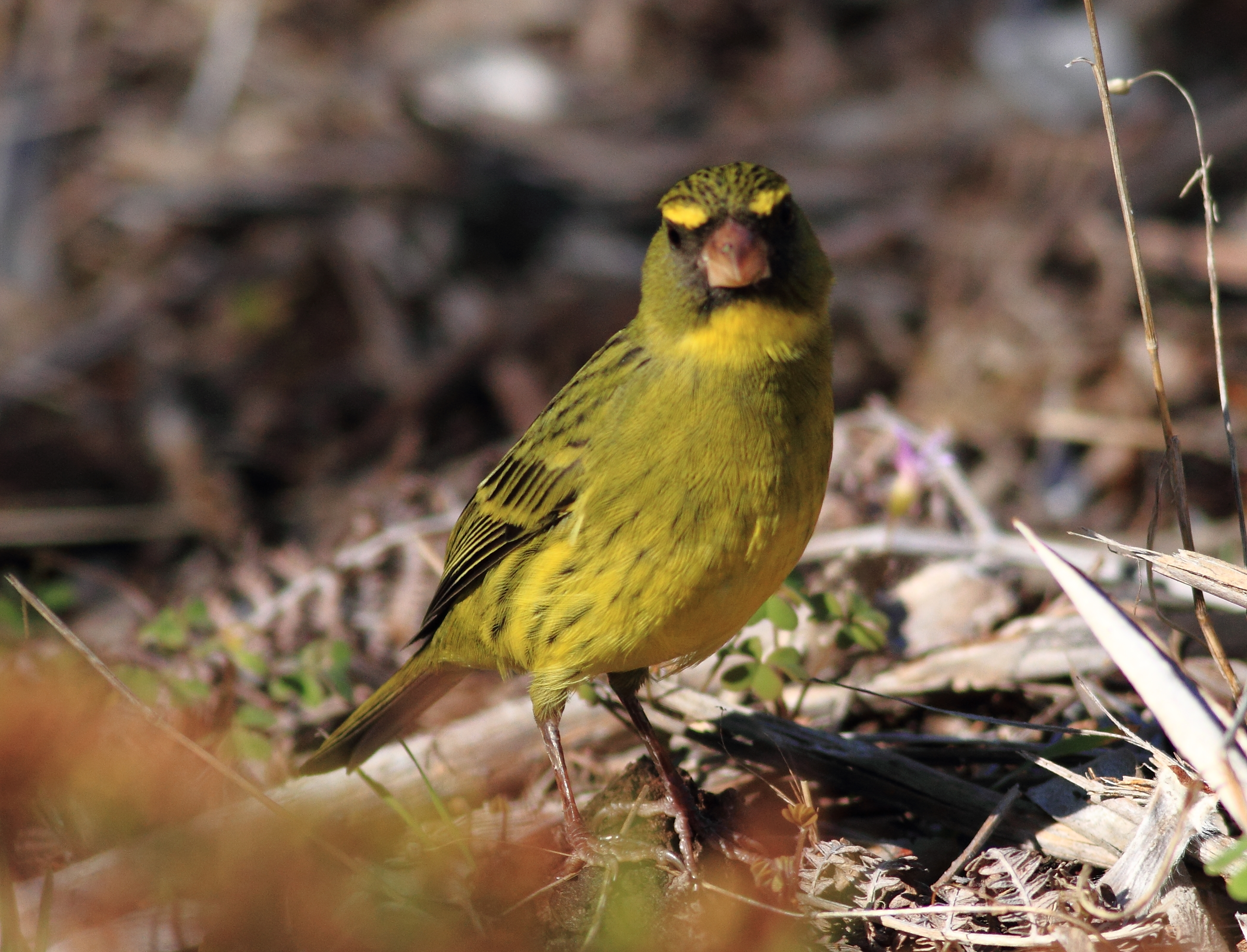 Forest Canary Crithagra scotops, Kirstenbosch, South Africa